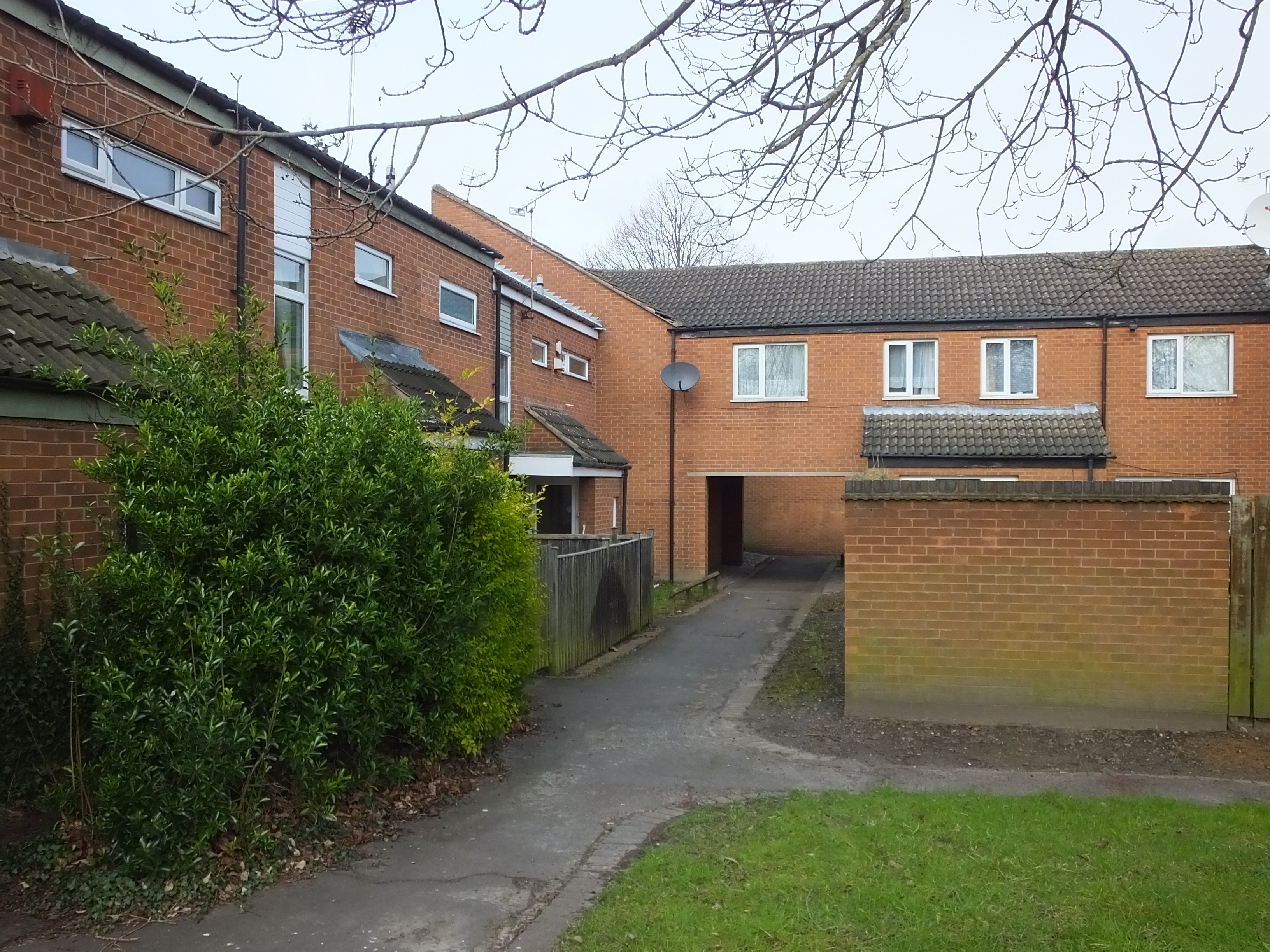 The Meadows, Nottingham (NG2) is a large Radburn style housing estate, south of the castle in Nottingham.